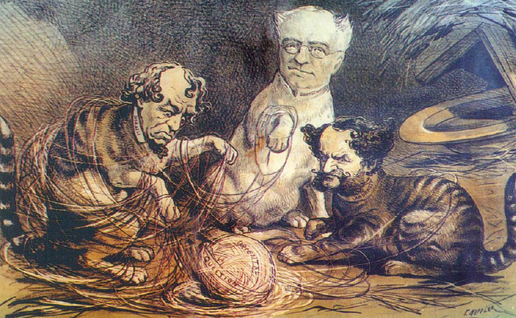 Russia, England and Austria solve Eastern question, 1878.